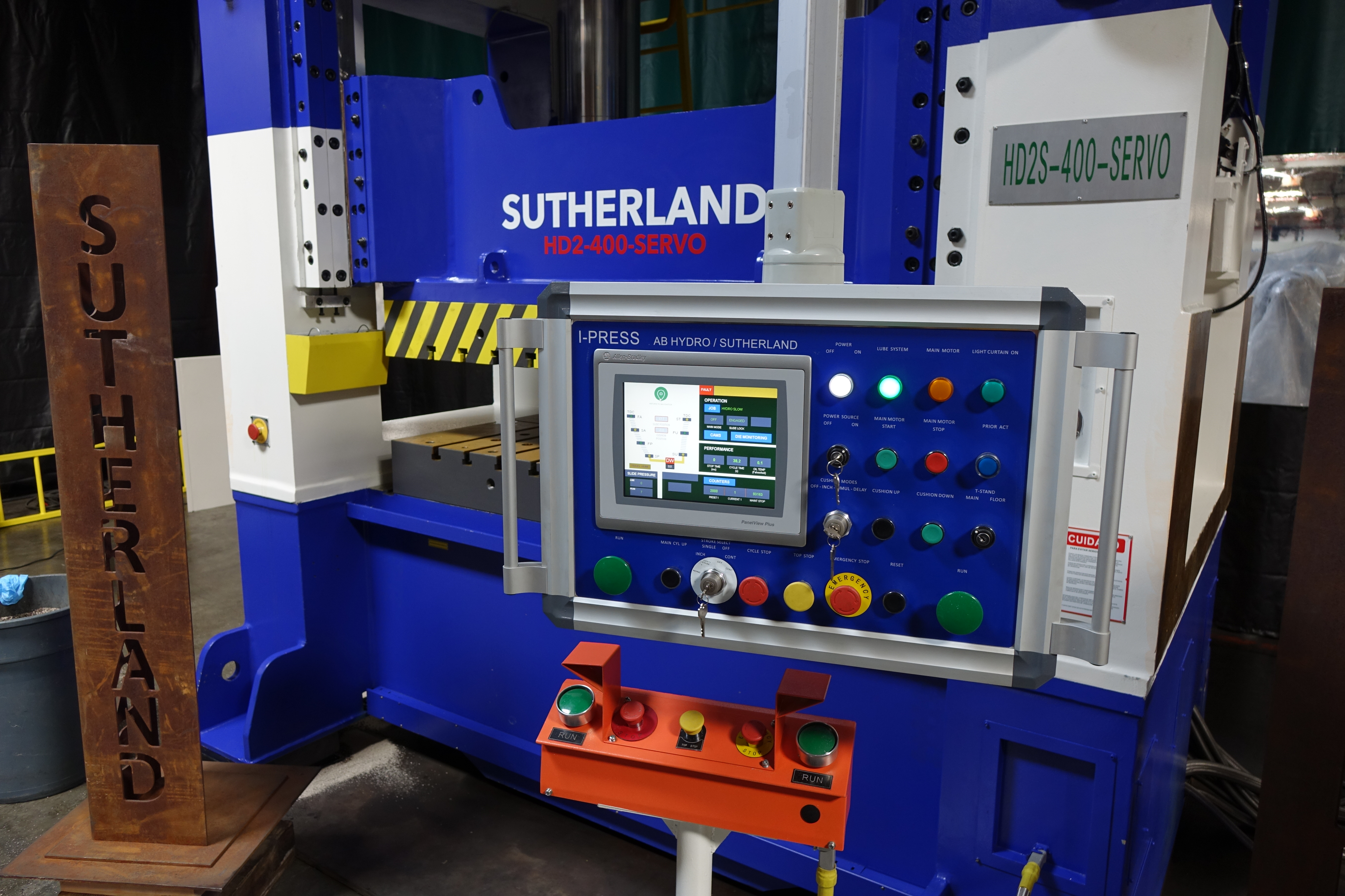 The latest technology for compression molding presses. I -PRESS controls the press, platen zone heat, automation and has the ability to be connected to servers and remote mobile devices.